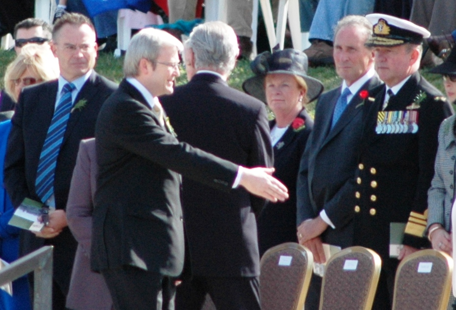 Russ Shalders, Chief of Navy (Australia) is greeted by Prime Minister of Australia Kevin Rudd at the 2008 National Anzac Day commemoration, Australian War Memorial, Canberra, Australian Capital Territory. Persons (left to right): unknown man and woman (faces obscured); Jon Stanhope, Chief Minister of the Australian Capital Territory (blue necktie); unknown woman; Kevin Rudd, Prime Minister of Australia (arm held out); unknown man (face obscured); unknown man (back to camera); unknown woman (hat); unknown man (blue necktie); Russ Shalders, Chief of Navy (Australia); unknown woman (hat)